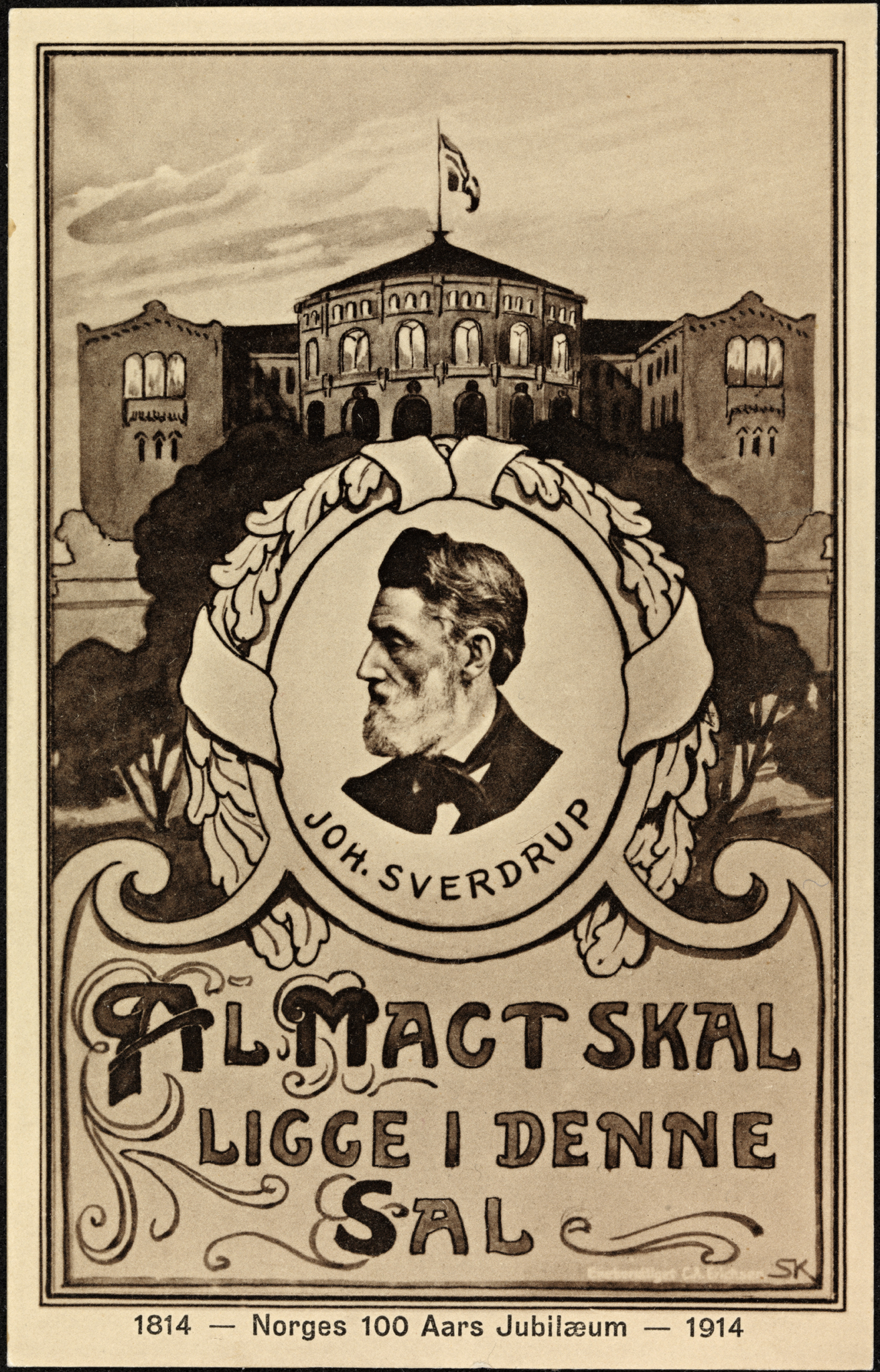 Tittel / Title: 1814 - Norges 100 Aars Jubilæum - 1914 Beskrivelse / Description: Postkort. Kunstner / Artist: Sverrer Knudsen (1875-1923) Utgiver / Publisher: C. A. Erichsen Utgitt / Published: 1914 Sted / Place: Oslo, Stortinget Eier / Owner Institution: Nasjonalbiblioteket / National Library of Norway Lenke / Link: Bildesignatur / Image Number: blds_05706